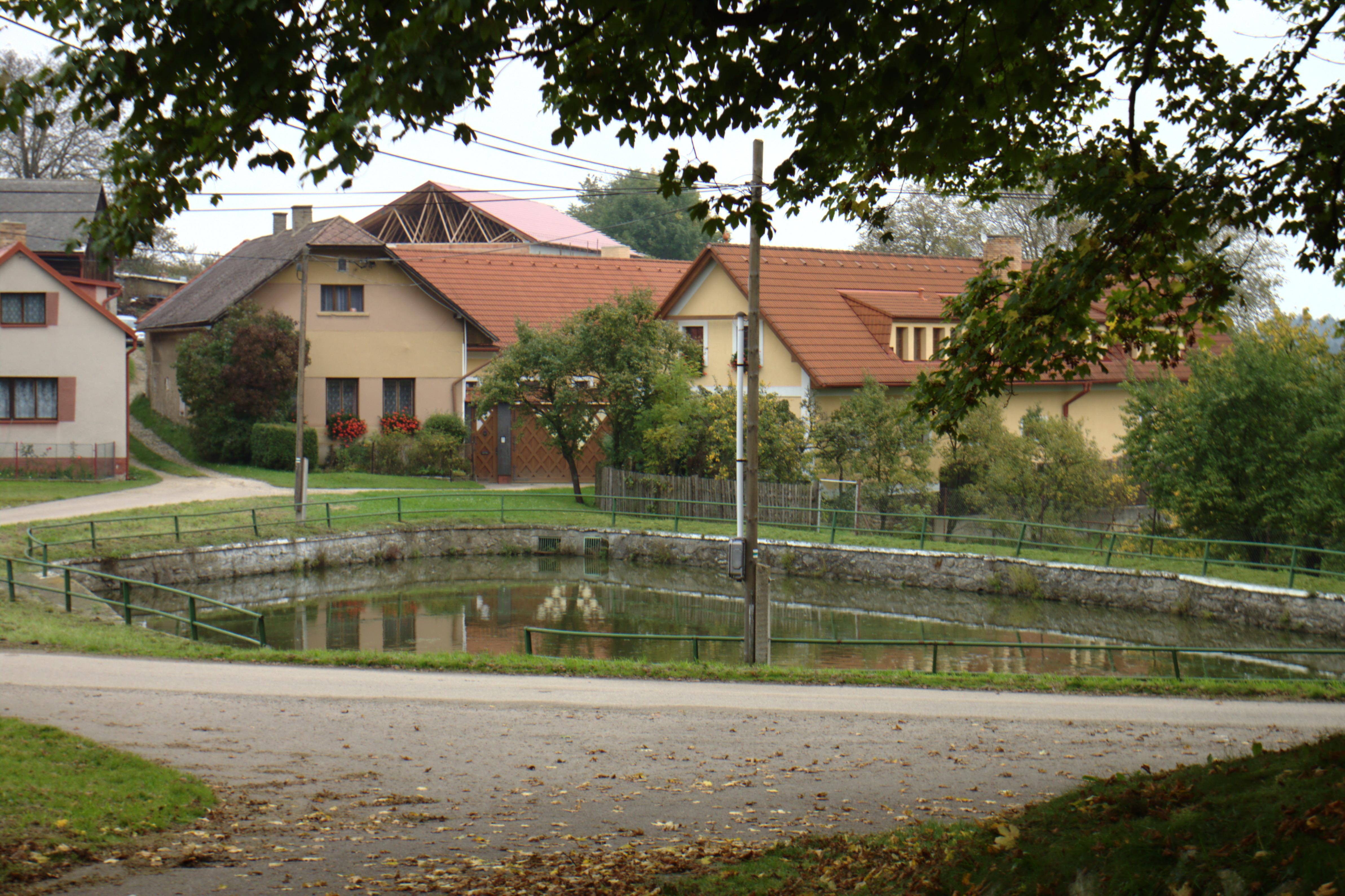 A common in Bedřichovice near Jankov, Central Bohemia, CZ